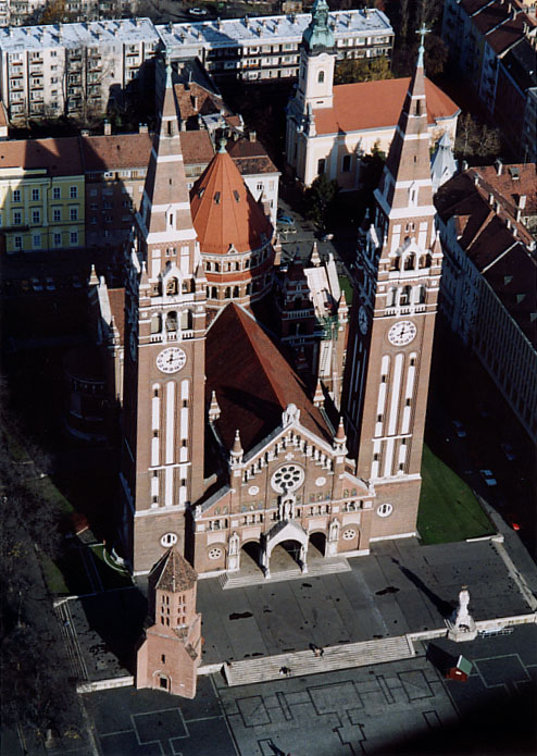 Dom - Szeged - Hungary - Europe